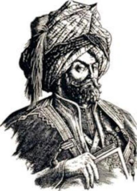 Sharaf Khan Bidlisi